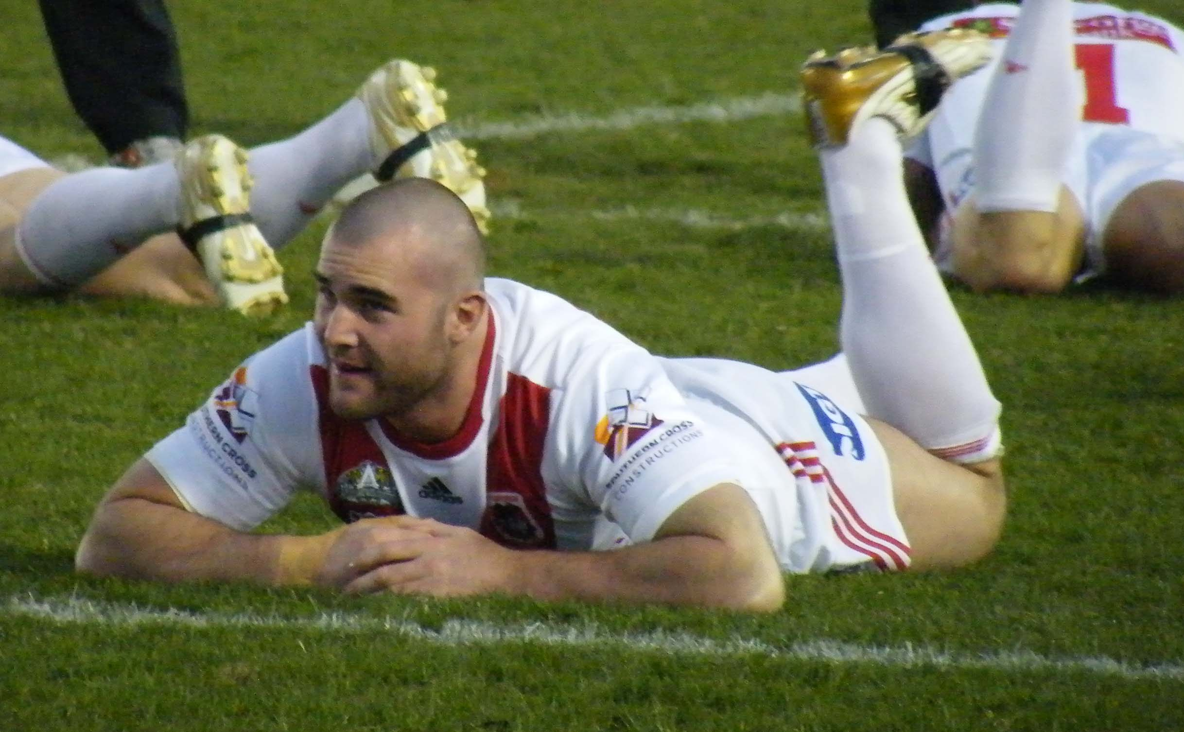 St George Illawarra Prop Justin Poore stretches prior to taking the field.